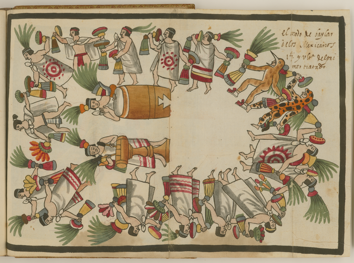 The Tovar Codex, attributed to the 16th-century Mexican Jesuit Juan de Tovar, contains detailed information about the rites and ceremonies of the Aztecs (also known as Mexica). The codex is illustrated with 51 full-page paintings in watercolor. Strongly influenced by pre-contact pictographic manuscripts, the paintings are of exceptional artistic quality. The manuscript is divided into three sections. The first section is a history of the travels of the Aztecs prior to the arrival of the Spanish. The second section, an illustrated history of the Aztecs, forms the main body of the manuscript. The third section contains the Tovar calendar. This illustration, from the second section, shows a dance of nobles. Two drummers at the center wear the feathered epaulette seen in the portraits of Emperor Moctezuma I and Emperor Moctezuma II. To the right of the drummers are the high priest, wearing a tilma (cloak) with the image of the sun, and soldiers representing the jaguar and eagle military castes. Decorative elements include feathered ornaments. The dance shown was possibly for the festival of Toxcatl, which was held during the month dedicated to Tezcatlipoca, the god of the night sky and memory. The drummers play the teponaxtli (wooden drum), and the ueuetl (drum with a membrane). The nobles wear either the tilma or the simpler maxtlatl (loincloth). Aztecs; Codex; Dance; Drum; Indians of Mexico; Indigenous peoples; Mesoamerica; Priests; Soldiers; Tovar Codex